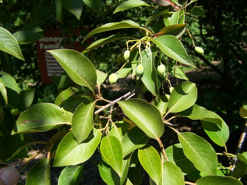 Jack's Viburnum - Viburnum X jackii Rehd. Family Caprifoliaceae -- chèvrefeuilles, honeysuckle. Morton Arboretum acc. 415-82-1